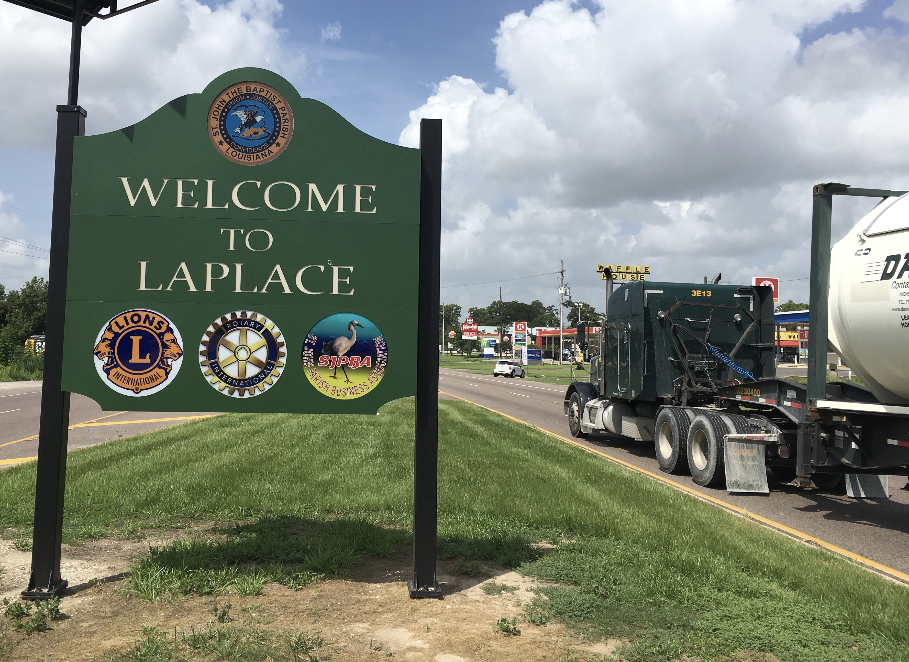 New Welcome signage for visitor to Laplace, Louisiana. It's located on Highway 51 near I-10.